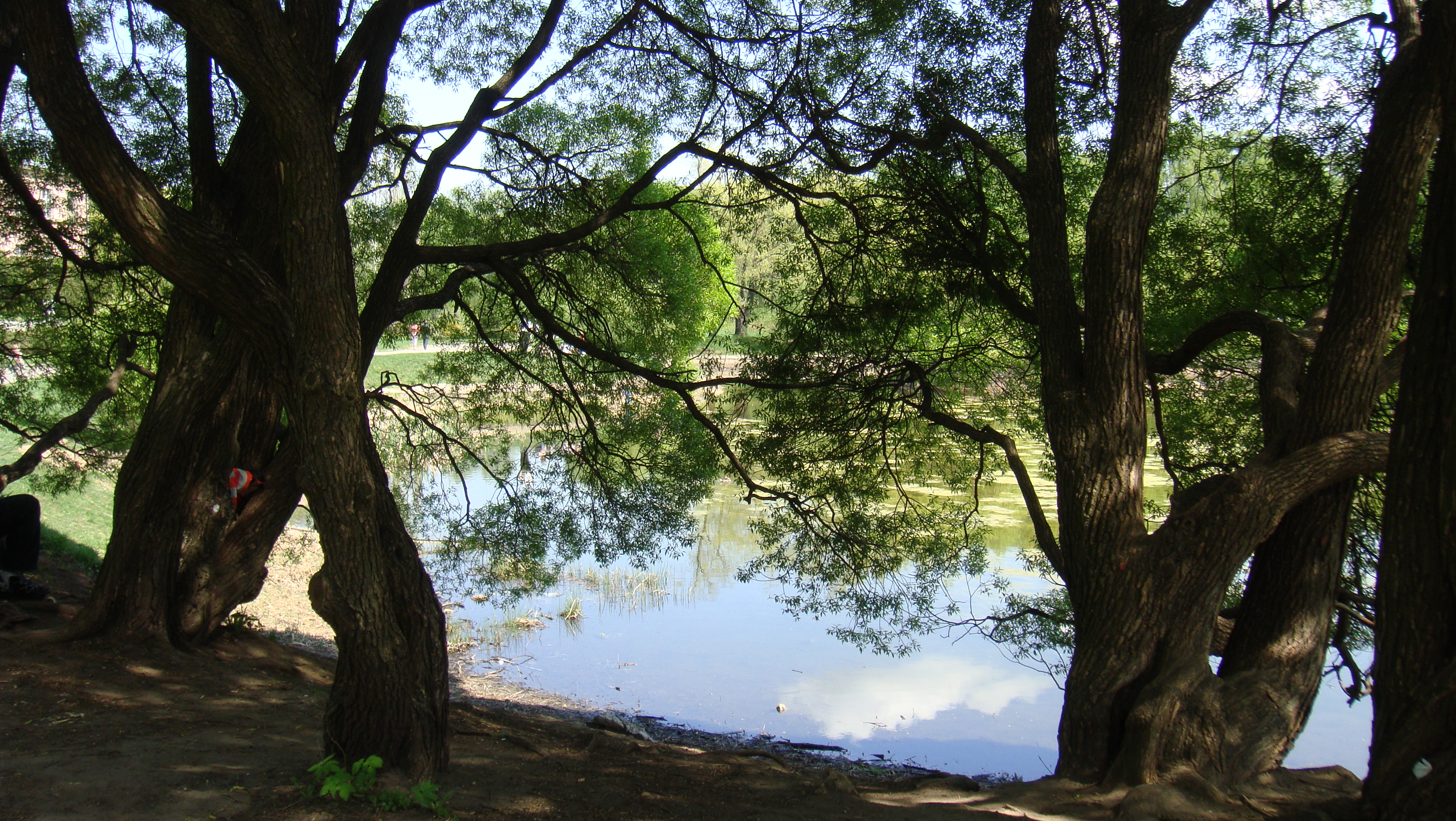 Moscow Botanical Garden of Academy of Sciences.jpg